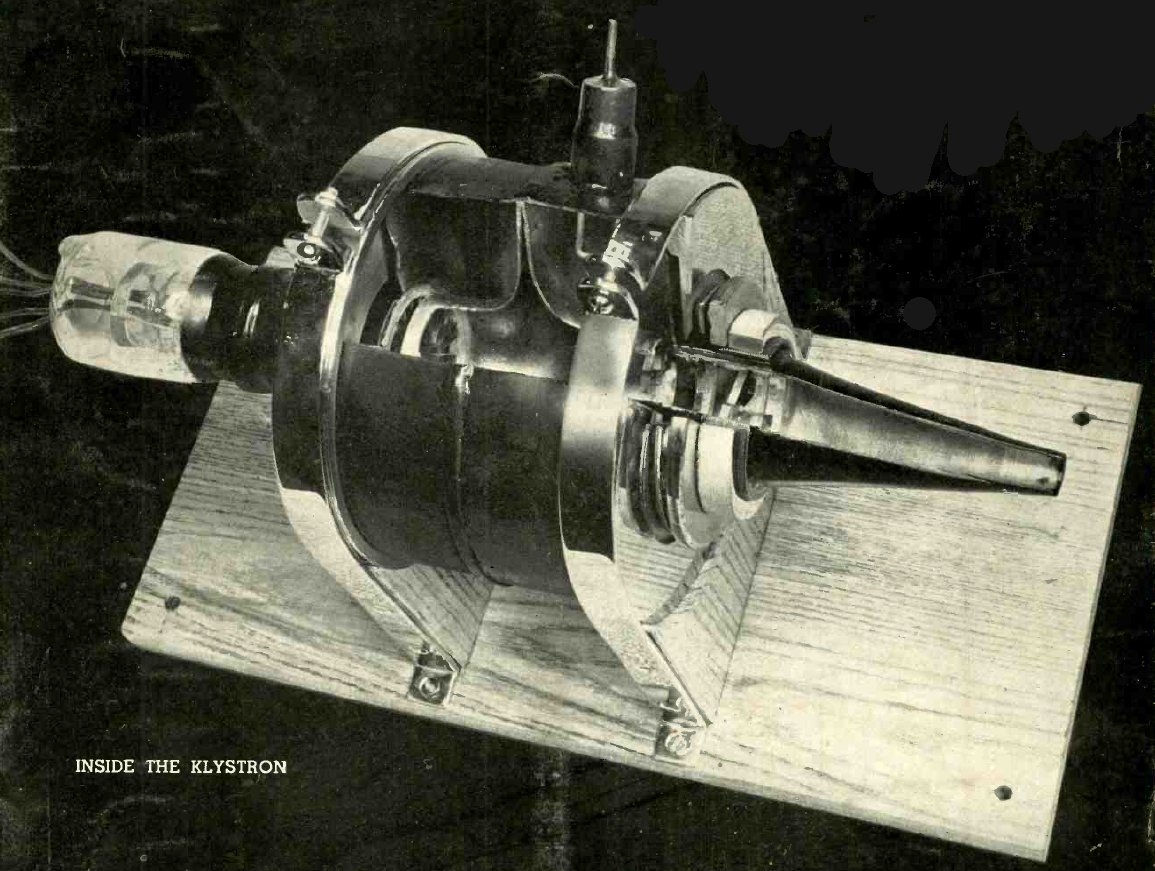 The first commercial klystron in 1940, manufactured by Westinghouse. Part of the tube is cut away to show the internal construction. The klystron, invented in 1937 by Russel and Sigurd Varian at Stanford University, is a linear beam vacuum tube which generates microwaves. It could generate 200 W of power at 40 centimeters (750 MHz) with 50% efficiency. On the left is the cathode and accelerating anode which creates the electron beam. In the center between the wooden supports is the drift tube, surrounded by the two donut-shaped cavity resonators, the "buncher" to which the input signal is applied, and the "catcher" from which the output signal is taken. The output terminal is visible at top. On the right is the cone shaped collector anode which absorbs the electrons.